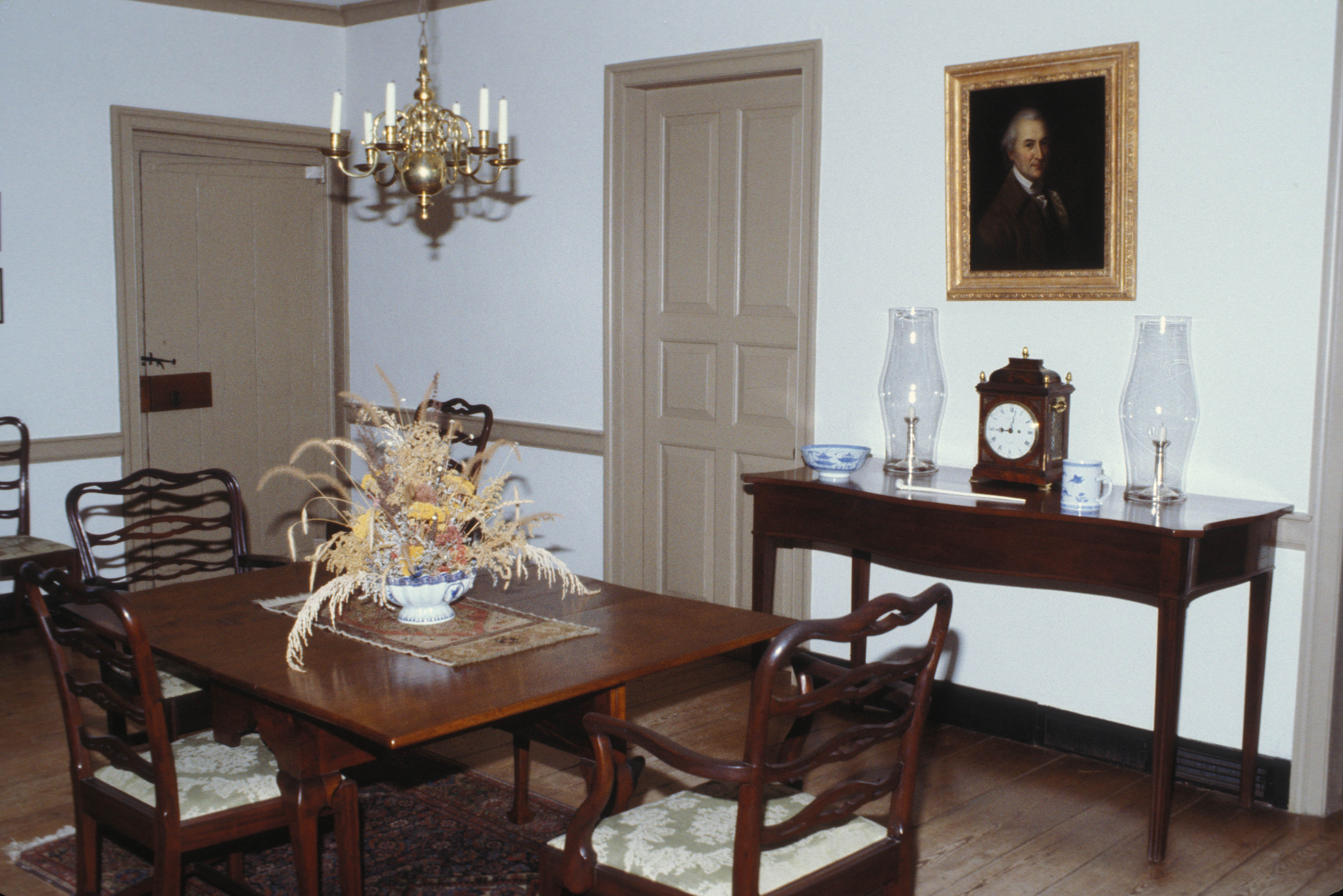 ANOTHER INTERIOR VIEW